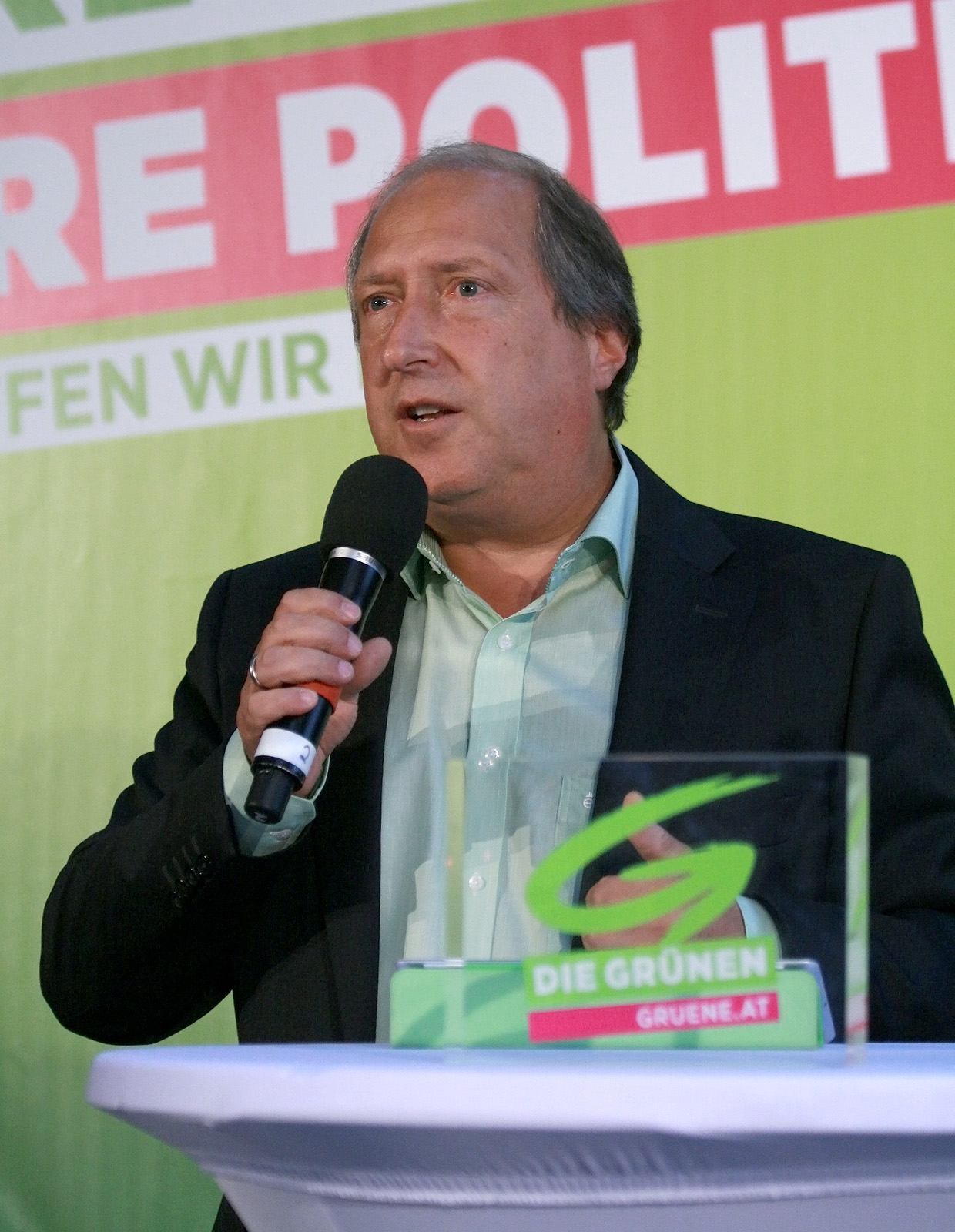 Rolf Holub at the kick-off event of the The Greens – The Green Alternative for the campaign for the Austrian legislative election 2013 at Palmenhauses/Burggarten in Vienna, Austria.